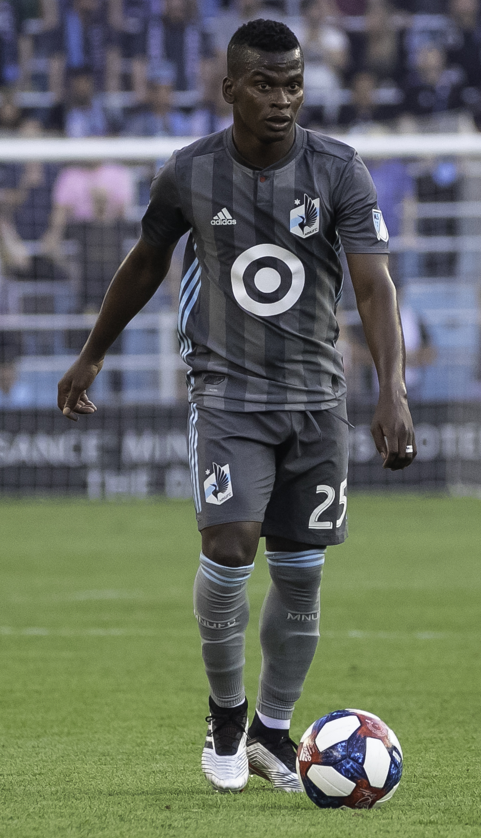 Darwin Quintero Jr. - MNUFC - Minnesota United Loons - Allianz Field - St. Paul Minnesota